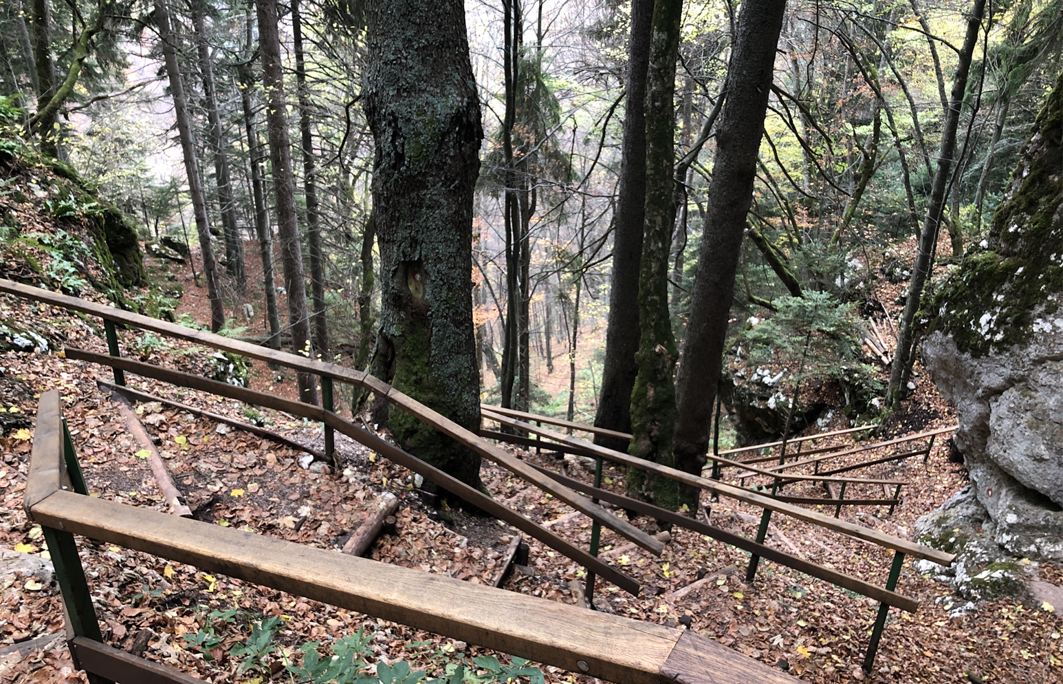 Steep trail to the Skakavac Waterfall